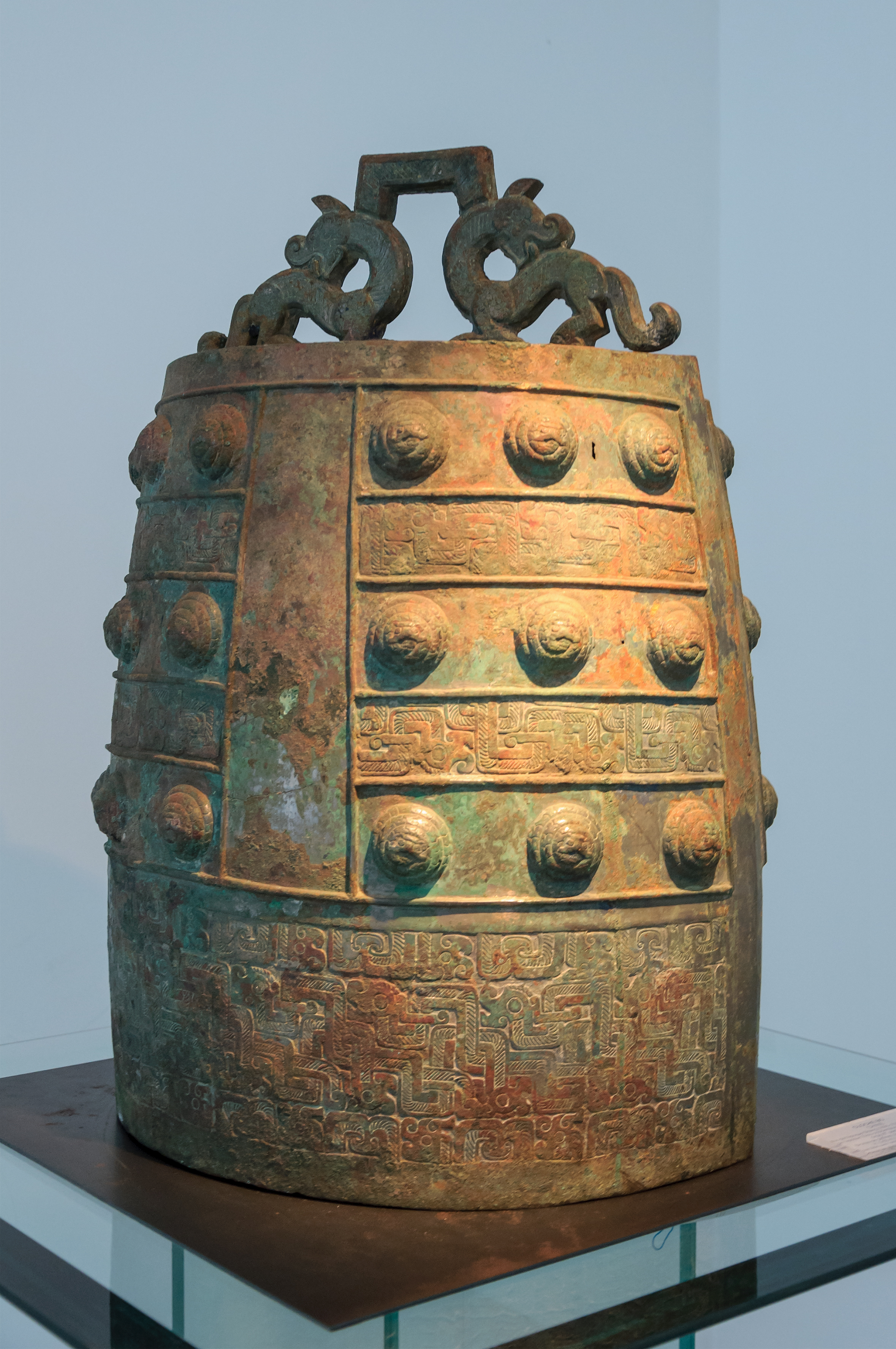 Bronze Bo bell. Bronze with patina. End of the Shang Dynasty, beginning of the Western Zhou period.